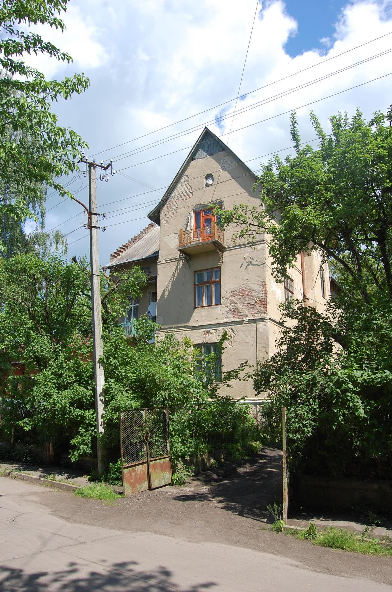 Felix Landau`s villa, now District Police Station, ul. Tarnawskiego 19, Drohobych, Ukraine